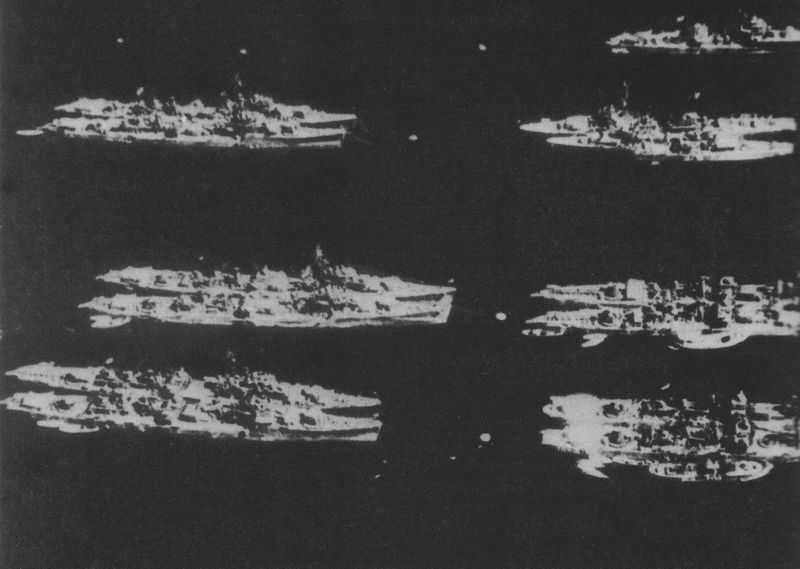 Japanese Matsu-class destroyers at Kure Naval Base, Japan, following the Japanese surrender.